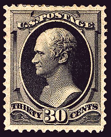 US Postage stamp, Alexander Hamilton, 1870 issue, 30c, blackThe 30-cent Hamilton was the first stamp to depict a Secretary of the Treasury and would remain so until the 1967. Issued by the The National Bank Note Company. Model for engraving taken from Italian sculptor Giuseppe Ceracchi.[1] ↑ Arago: 30-cent Hamilton. Smithsonian National Postal Museum (May 16, 2006).